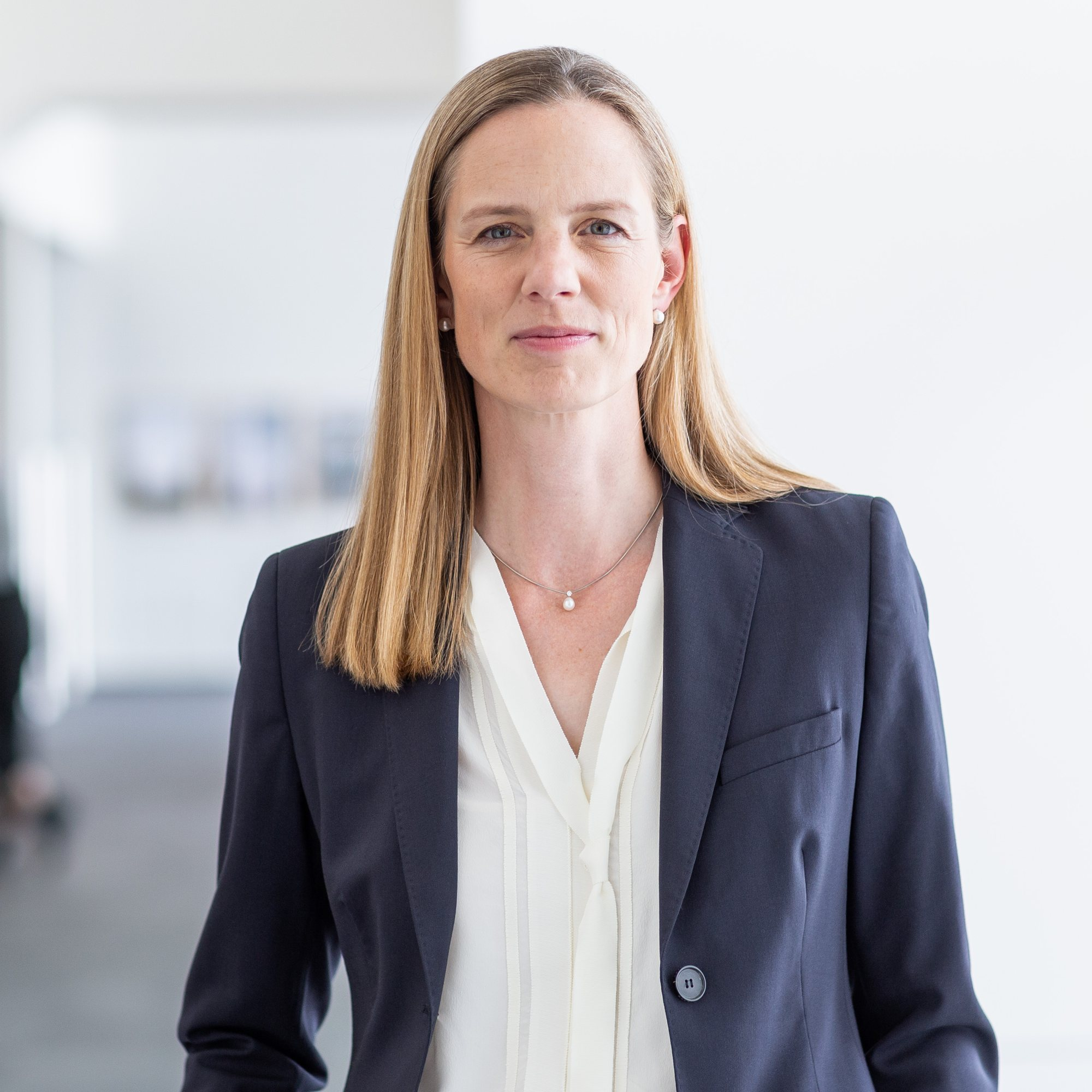 Helene von Roeder, German manager, Chief Financial Officer of Vonovia